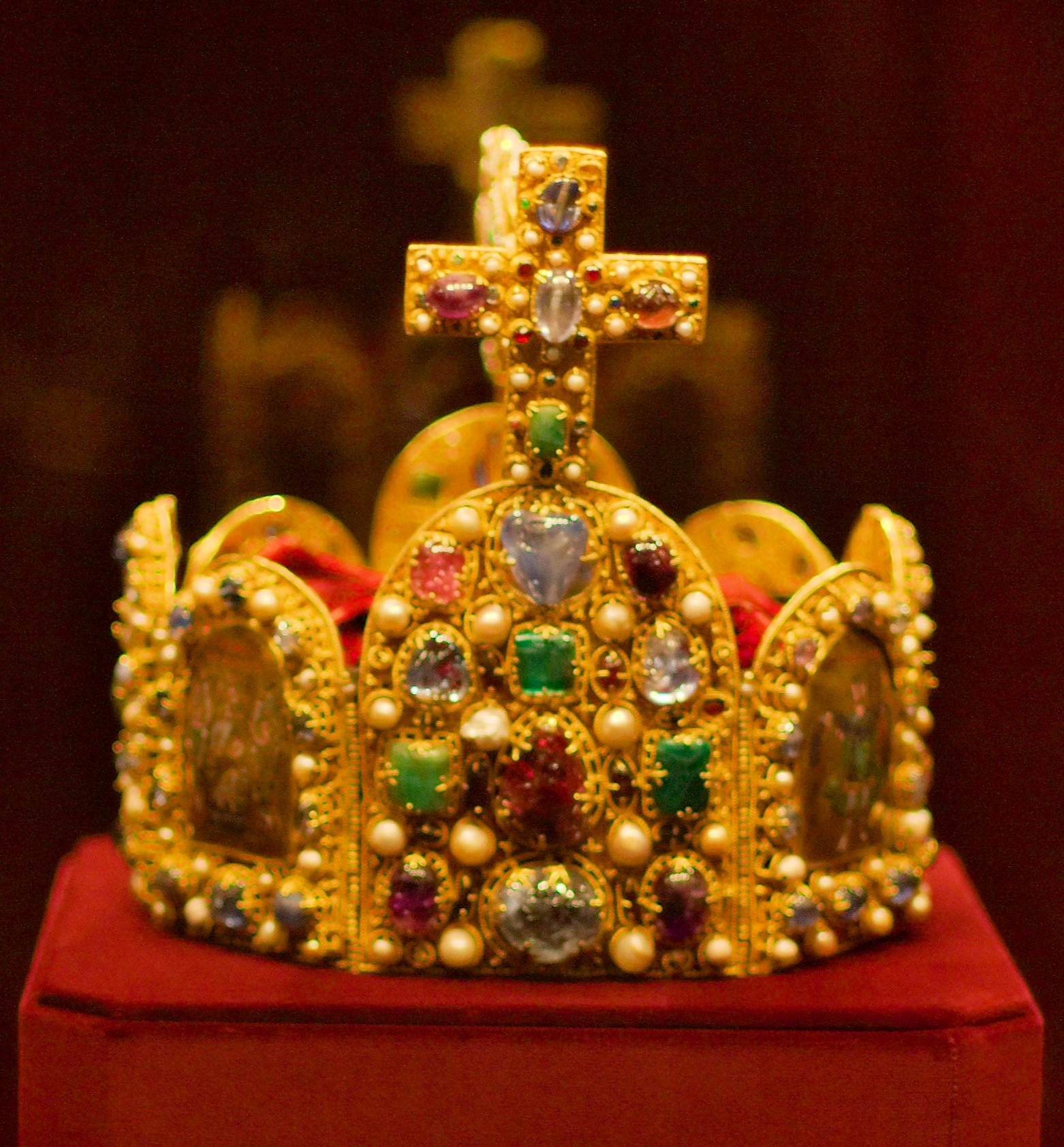 Imperial Crown of the Holy Roman Empire in "Schatzkammer" Vienna